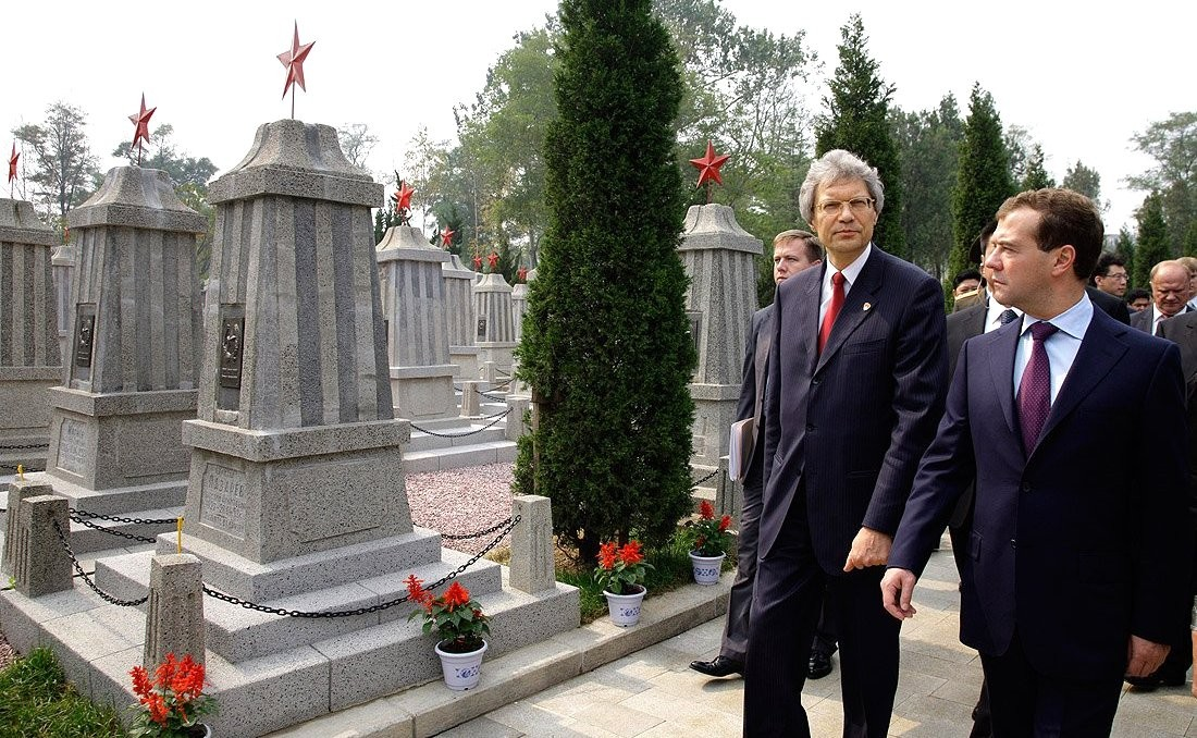 With Russian Ambassador to China Sergei Razov during a visit to the Russian military cemetery.